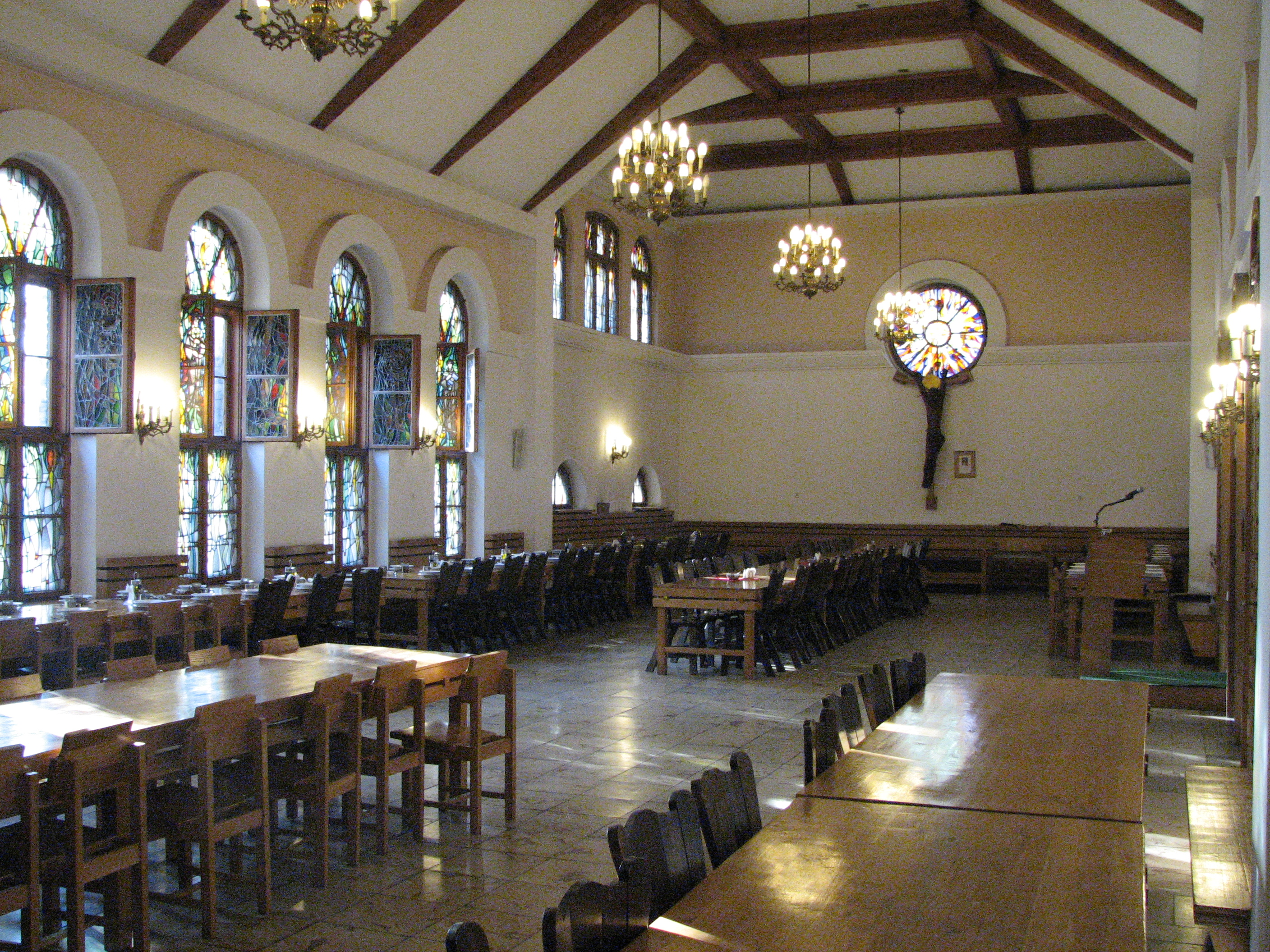 Refectory of the Franciscan monastery in Katowice Panewniki, Poland